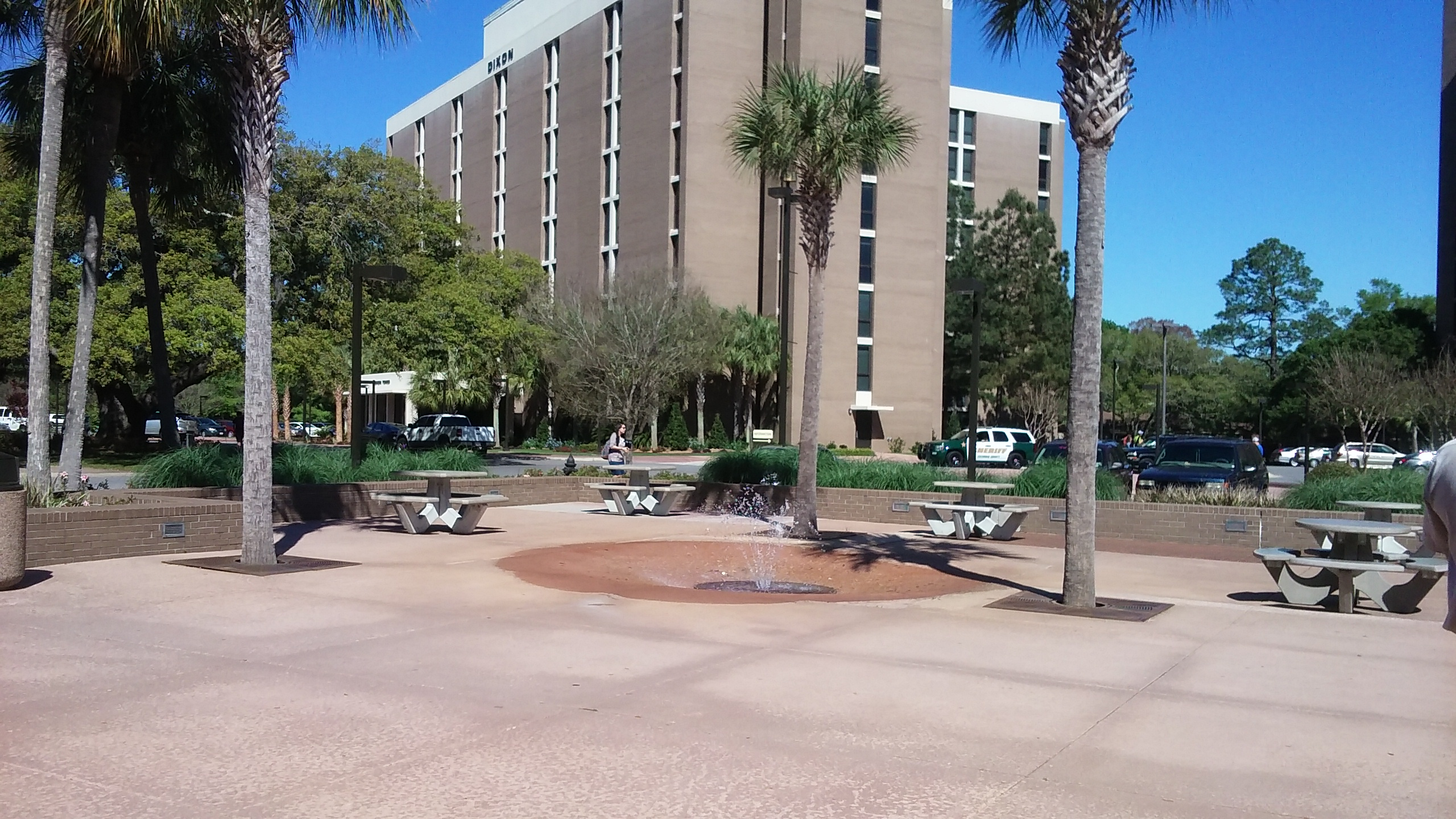 A fountain and seating area outside of the Commons building at Pensacola Christian College. A dormitory tower can be seen in the background. This image was taken during College Days, a public event at the college.